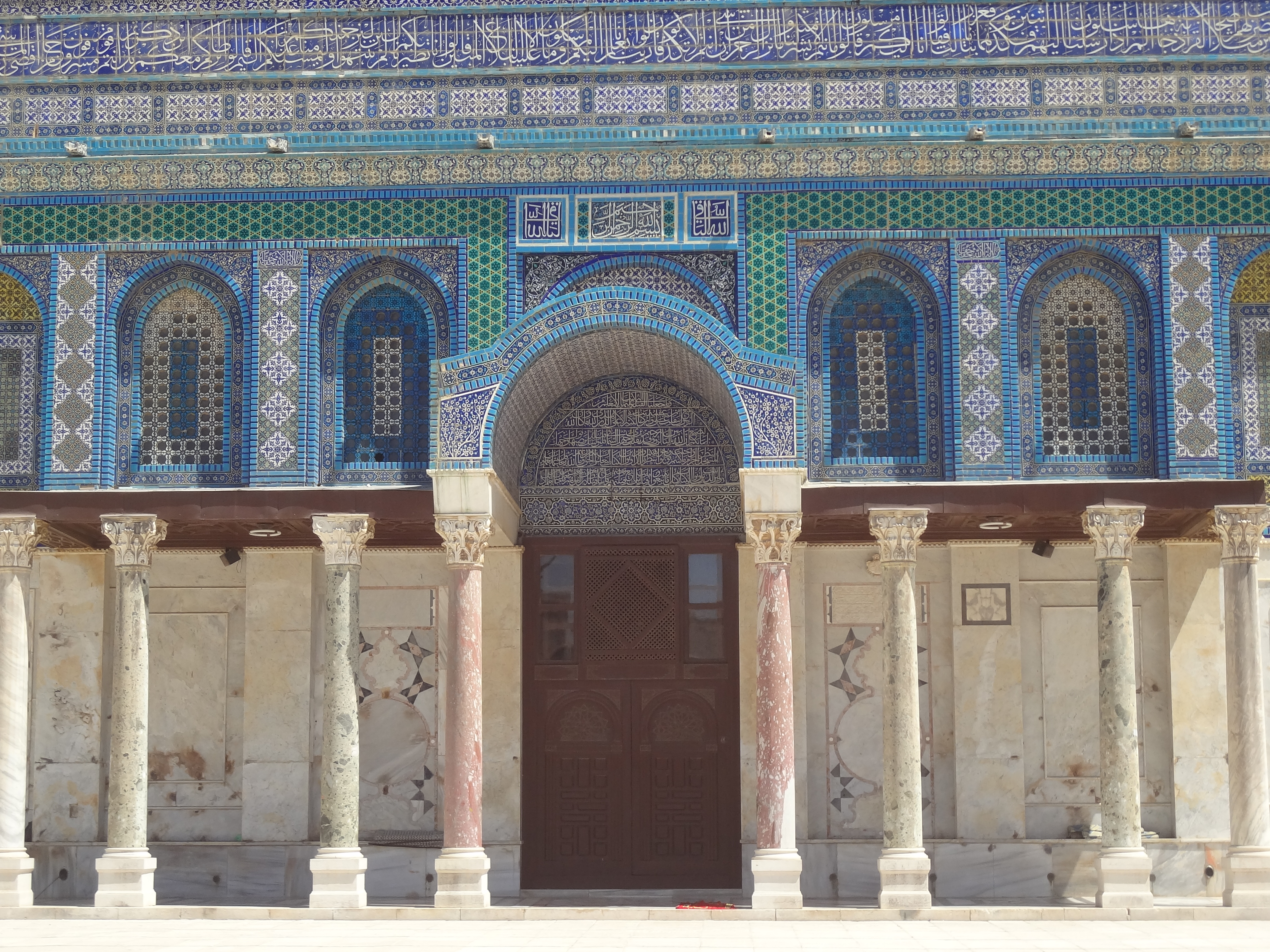 dome of the rock southern entrance